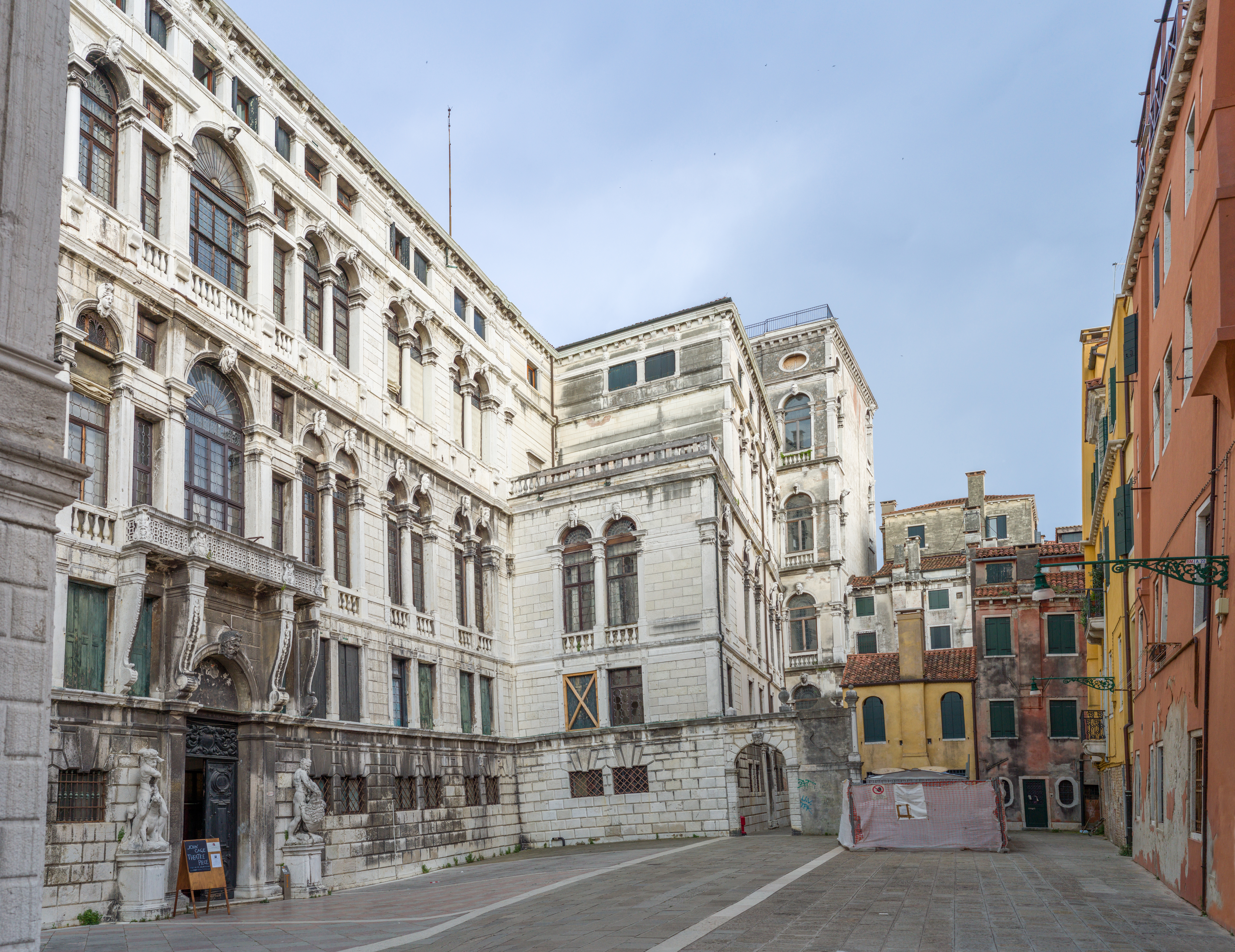 Palazzo Pisani a Santo Stefano in Venice.